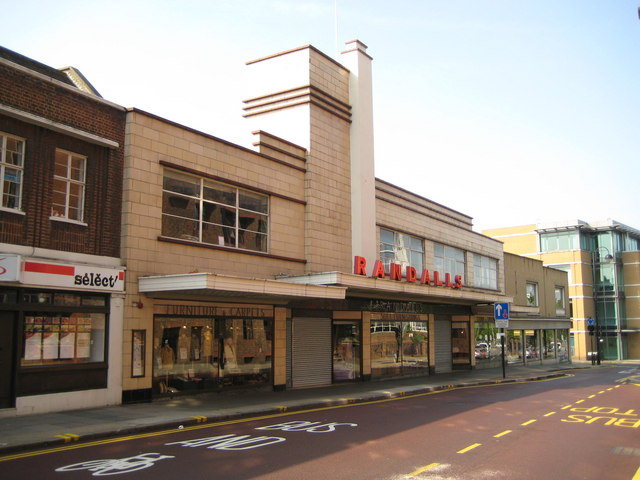 Uxbridge: Vine Street and Randalls store This is the classic Art Deco frontage of the Randalls soft furnishings store in Vine Street. The red neon sign was lit up, even on a Sunday morning.